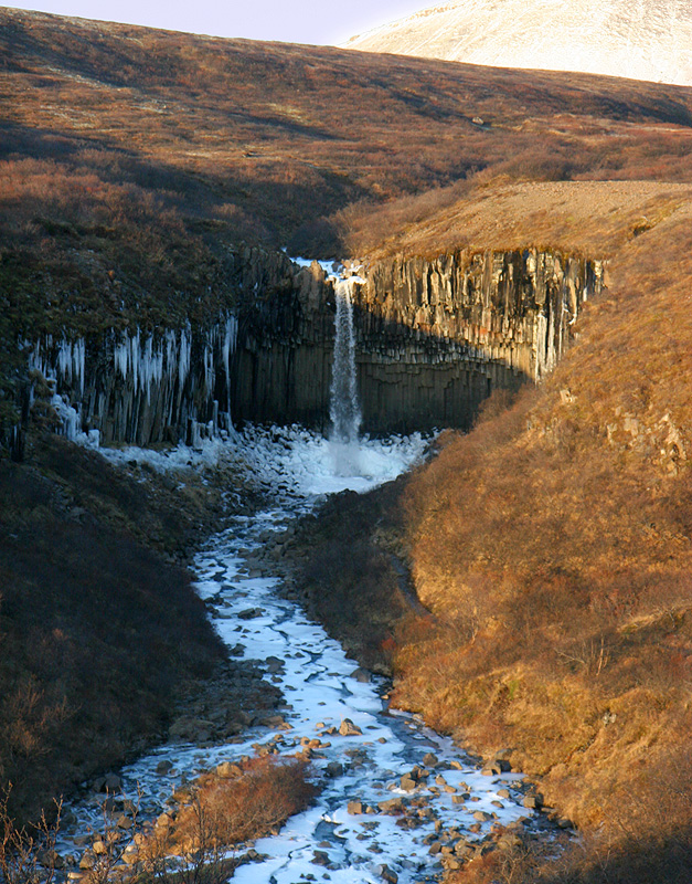 Svarðifoss (25m high) in Skaftafell, November 24 15:30 Iceland, November 2007 Photo by me user:debivort (or friend, with permission given to freely license photo).